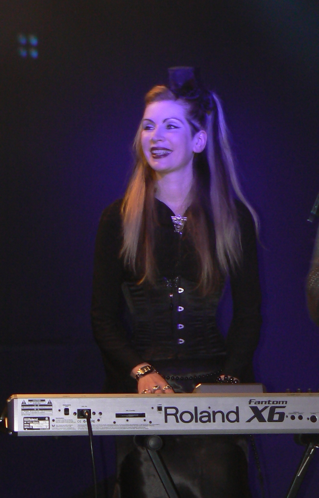 Yvonne de Ray from Clan of Xymox at a concert in Bulgaria